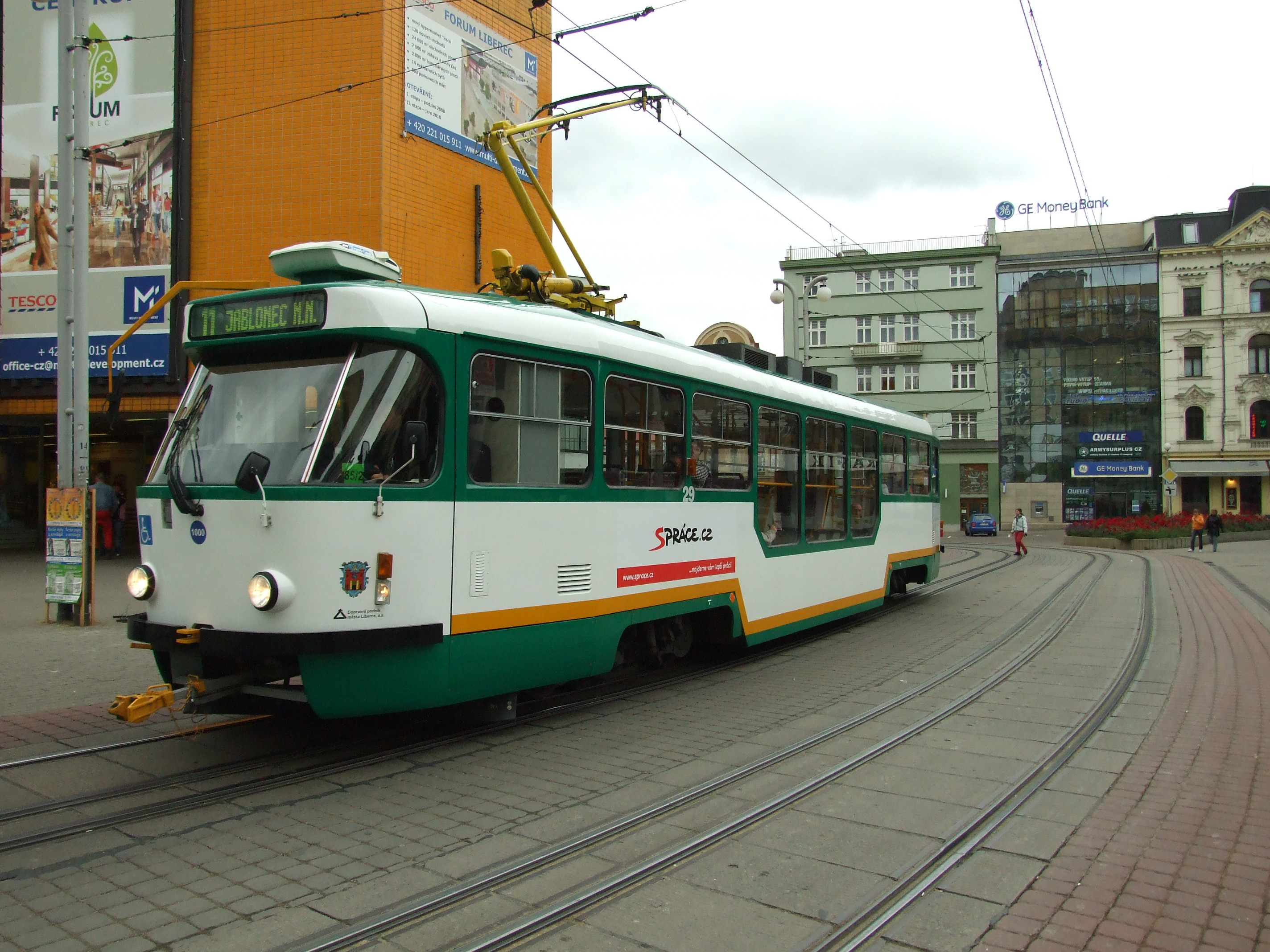 Tram transport in Liberec and Jablonec, Liberec region, CZhelp